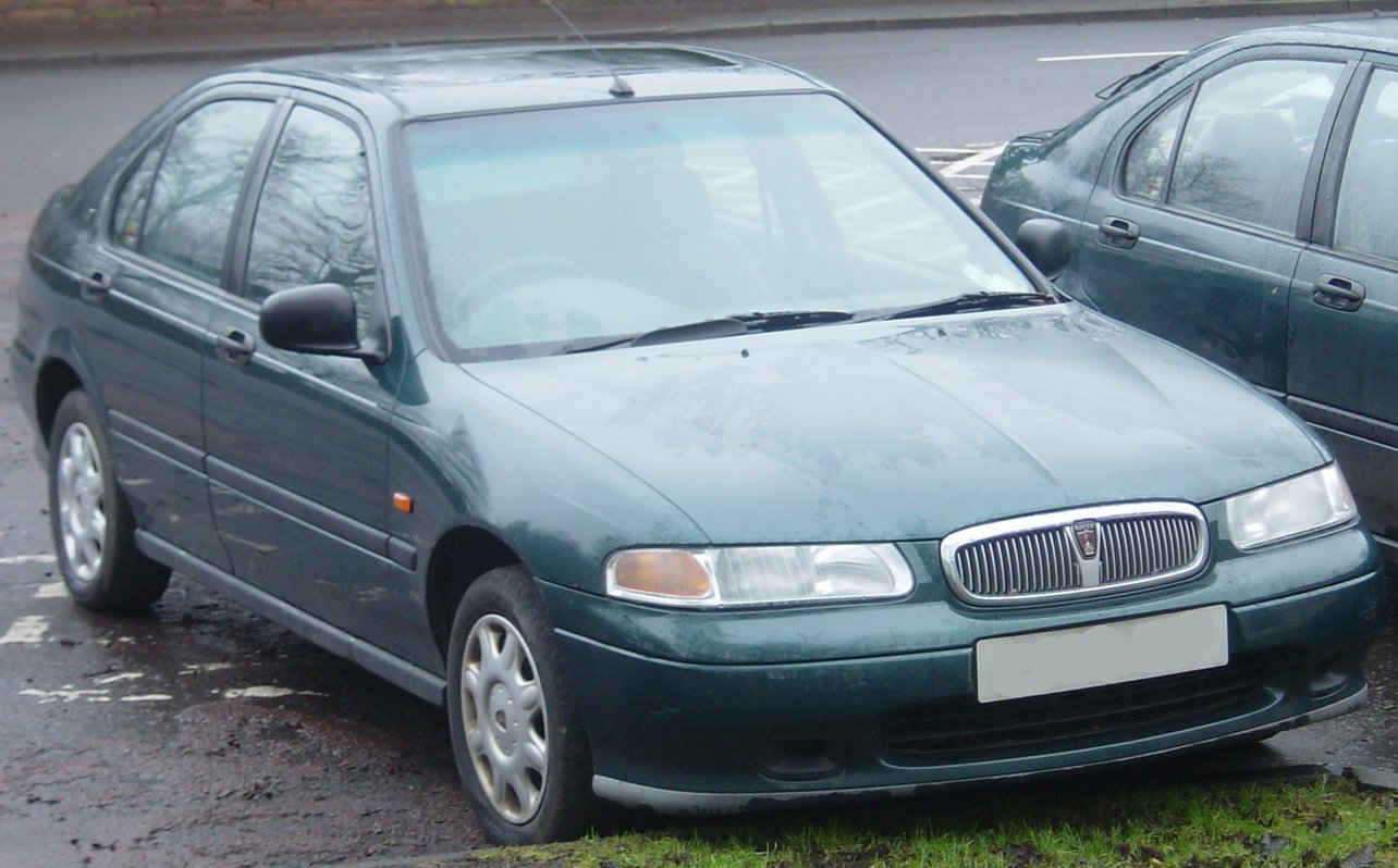 created by Mazurka